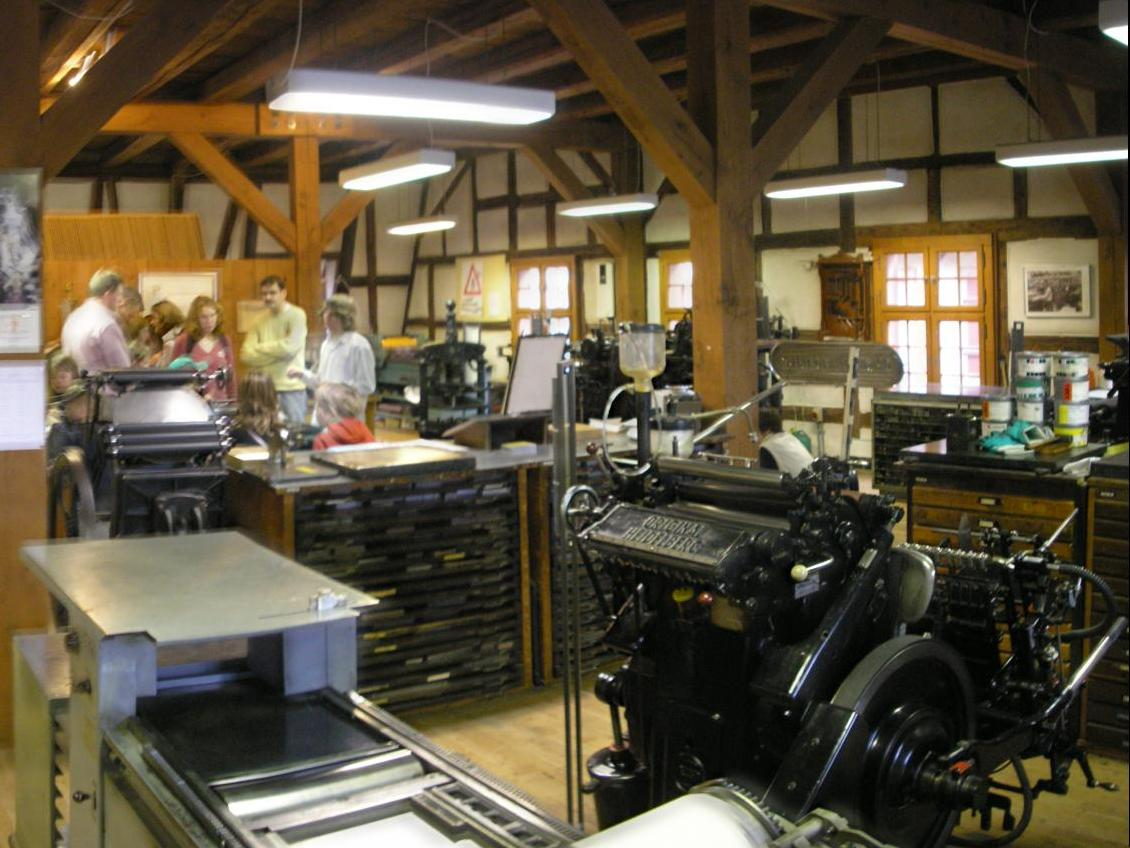 Interior view of the Paper Museum in Basel, upper floor with printing machine